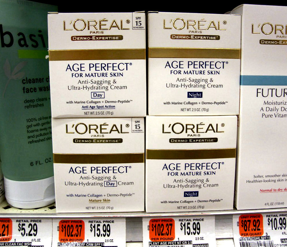 Photo of L'Oréal's anti-aging creams in Hannaford store in Orono, Maine, USA.